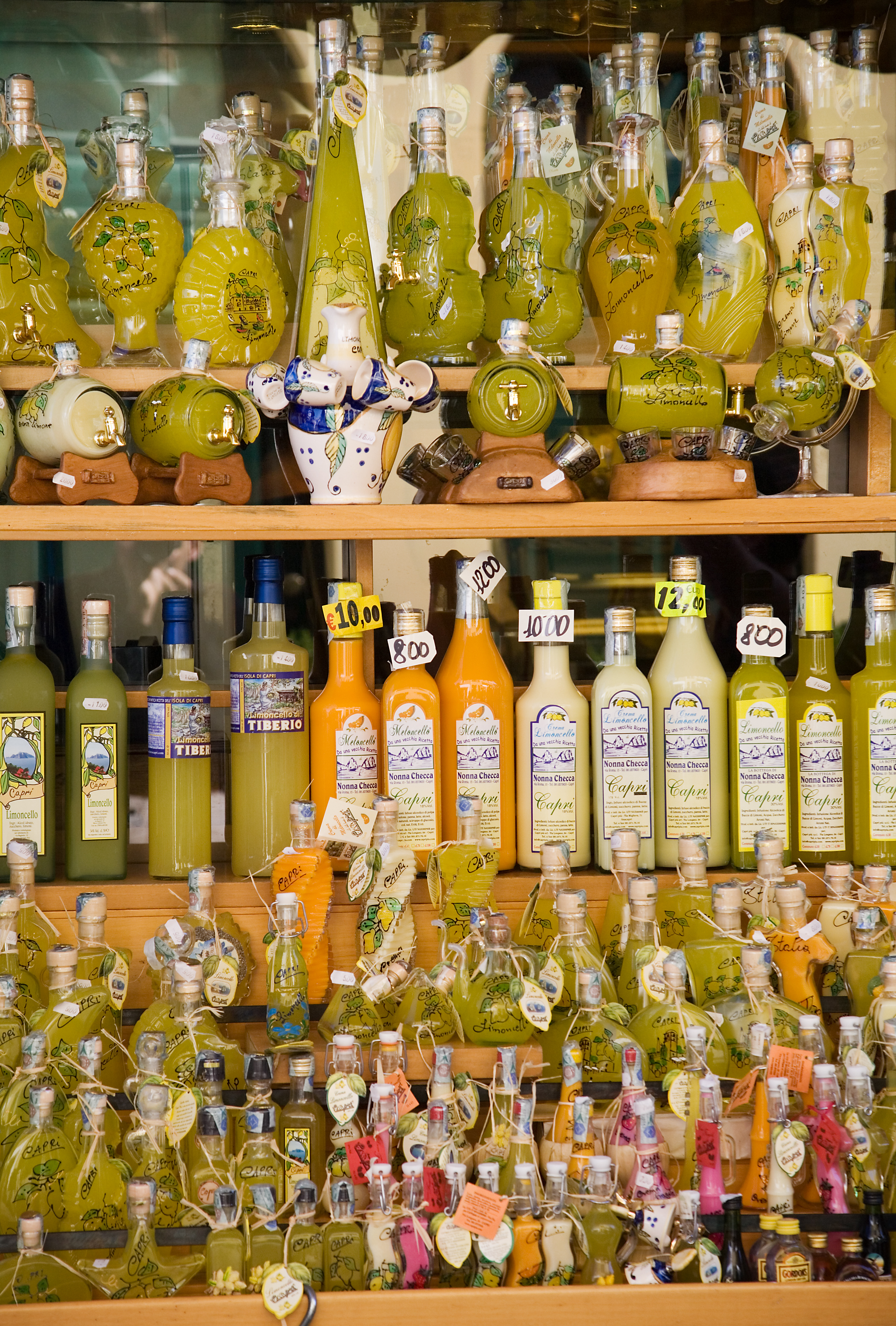 Limoncello bottles, Capri, Italy